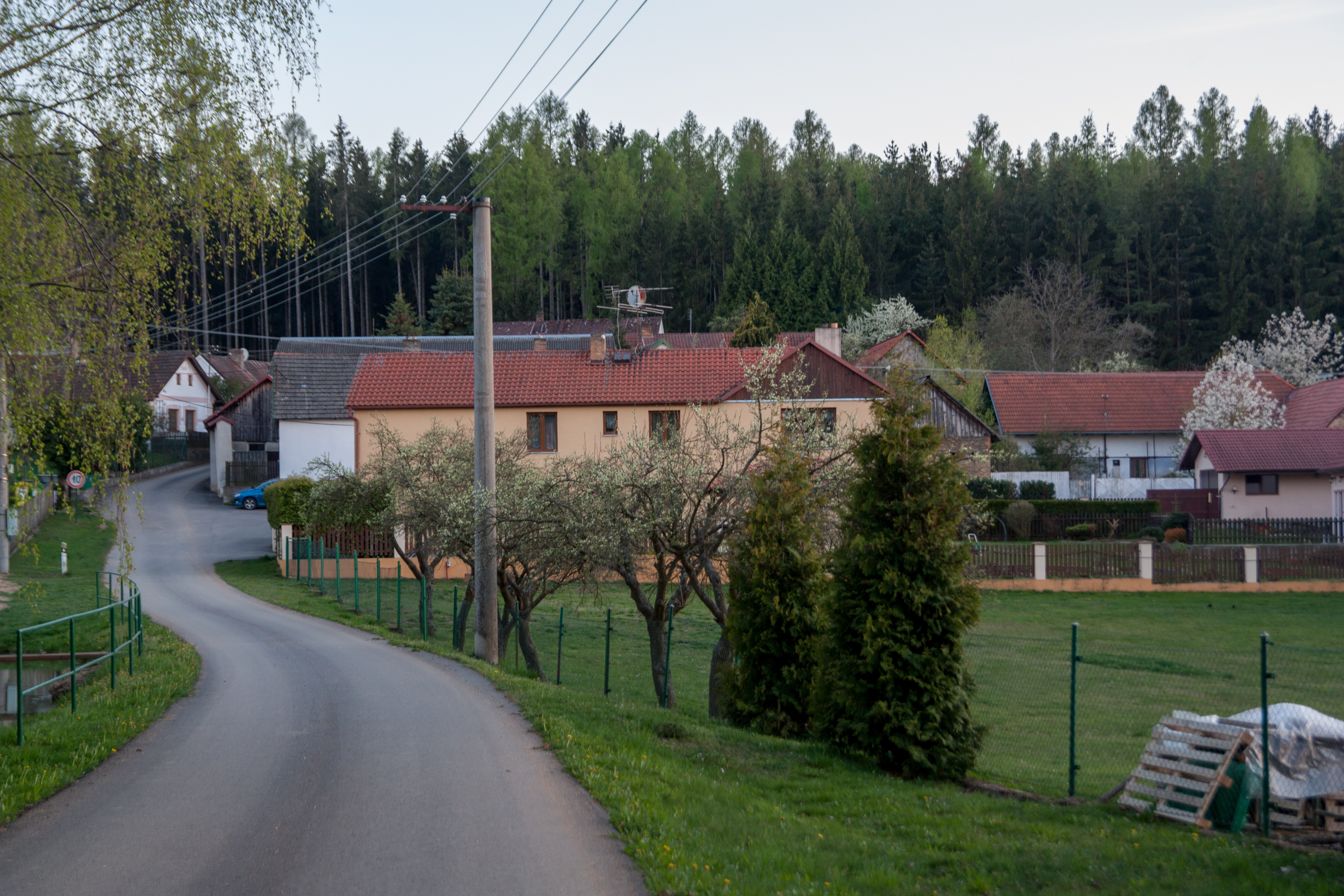 Houses in municipality Vitanovice, Tábor District, South Bohemian Region, Czechia